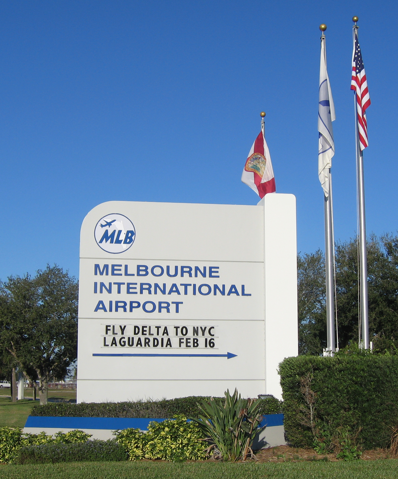 Monument sign at road entrance to Melbourne International Airport, One Terminal Parkway, Melbourne, Florida. This sign is located just off NASA Boulevard.